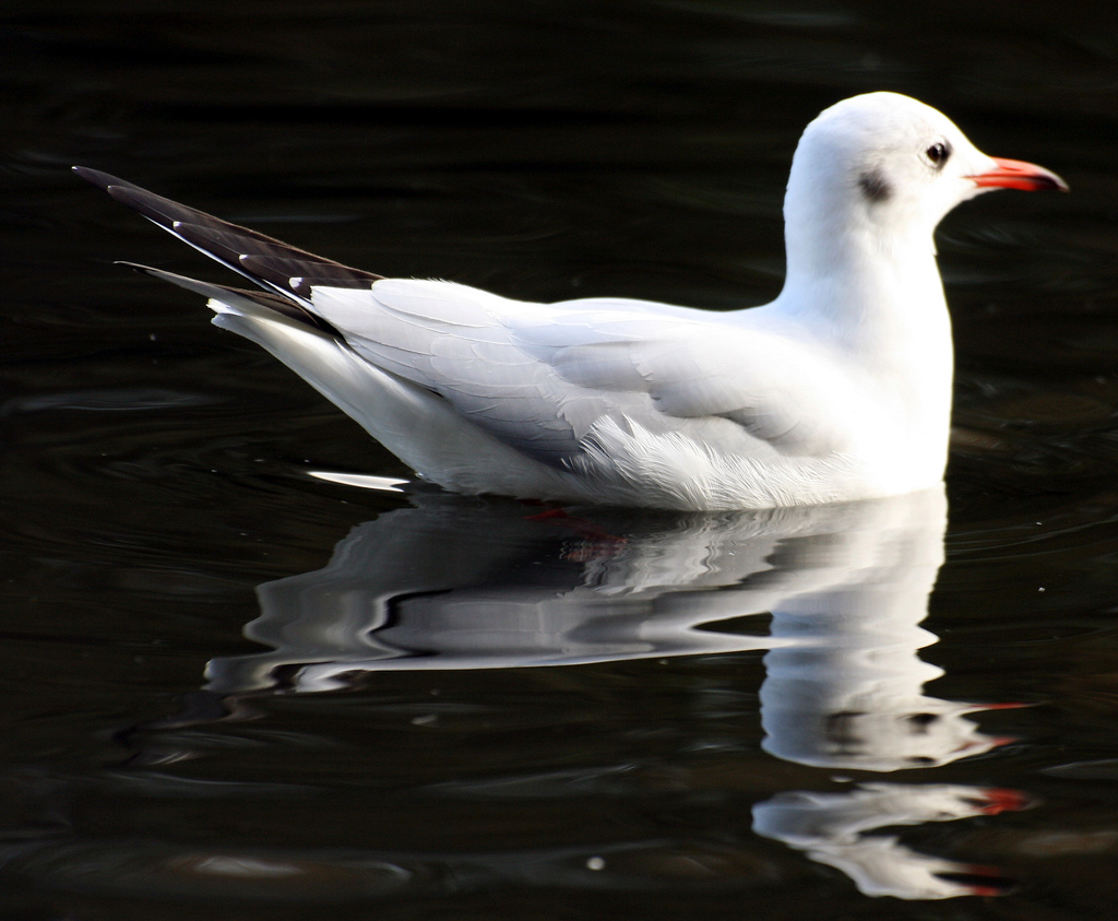 Chroicocephalus ridibundus adult winter plumage; Hyde park, London.